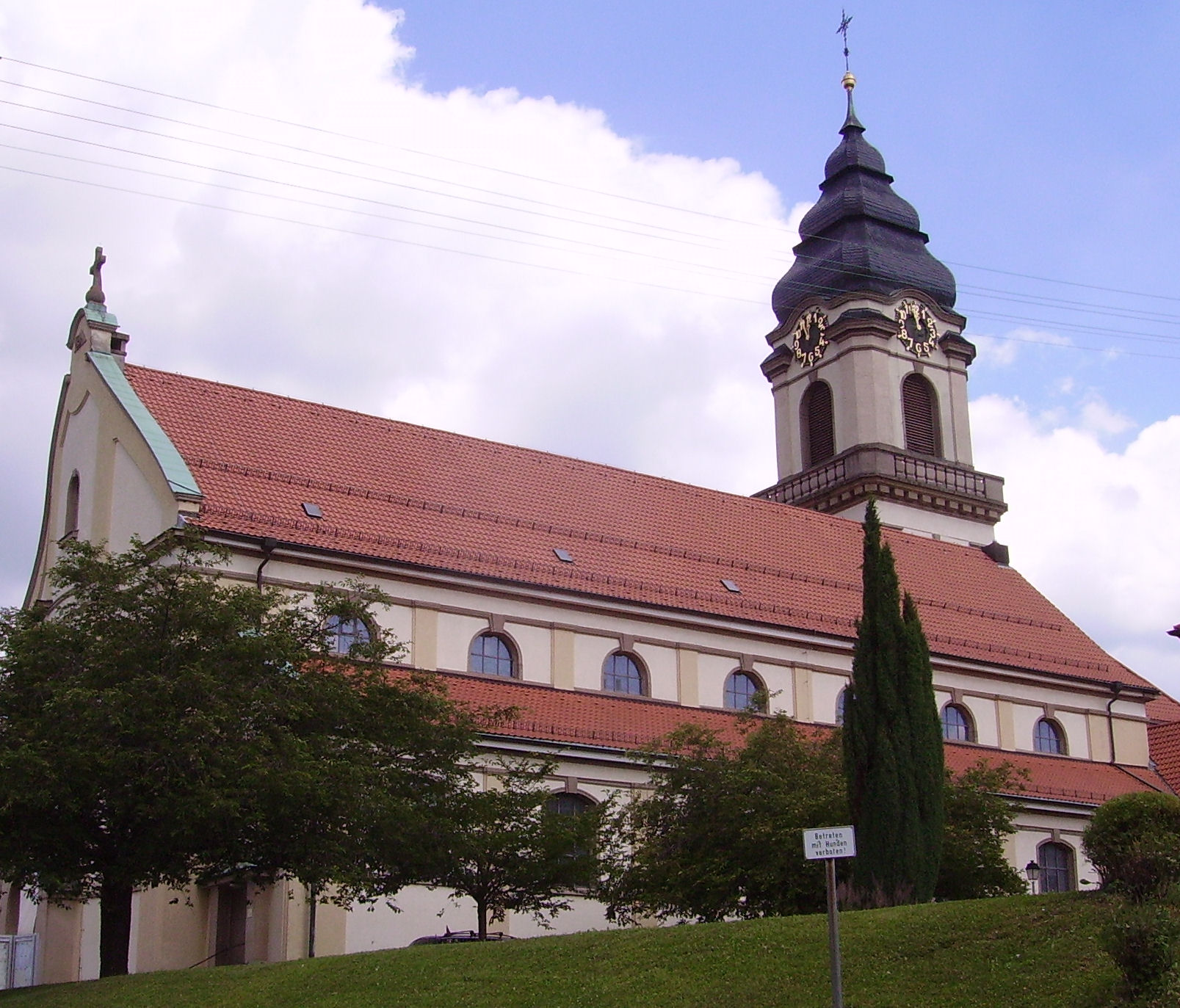 Dossenheim, Germany